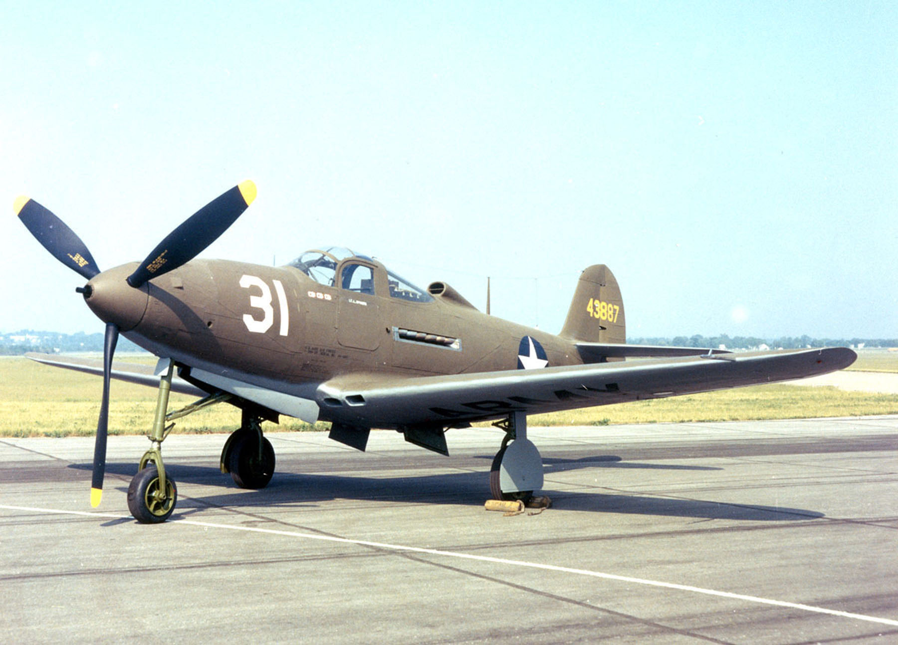 Description: DAYTON, Ohio -- Bell P-39Q Airacobra at the National Museum of the United States Air Force. (U.S. Air Force photo)